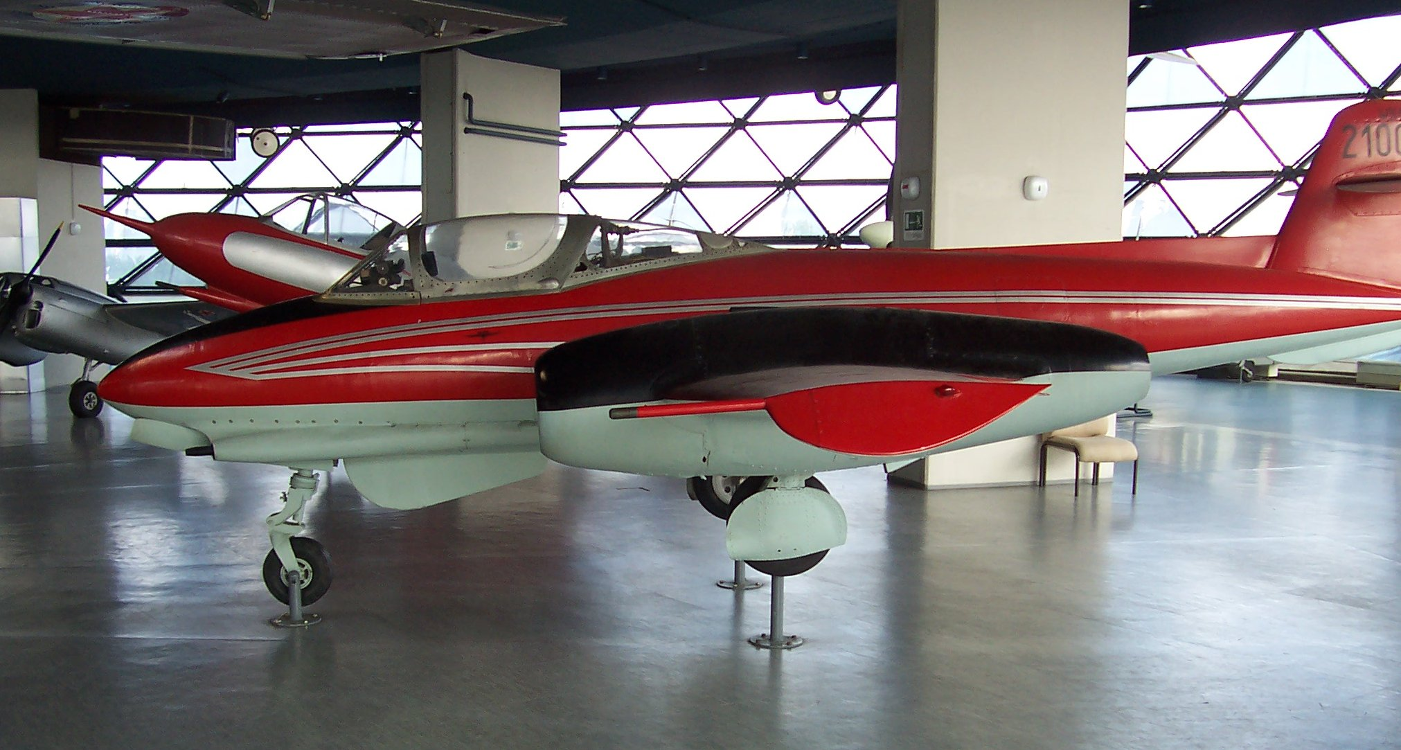 Image shows experimental airplane J-451MM Stršljen, made in early-mid 1950s in Yugoslavia. Designer Dragoljub Beslin.